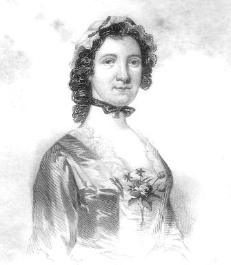 Image of Mary Philipse from The Women of the American Revolution